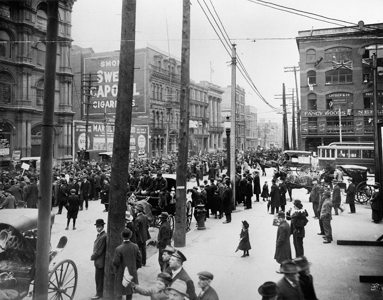 Anti-conscription parade at Victoria Square, Montreal, Quebec, Canada. Opposition to conscription in Canada was widespread (including farmers, employers, recent immigrants), but open opposition was left to French-speakers, primarily in Quebec.